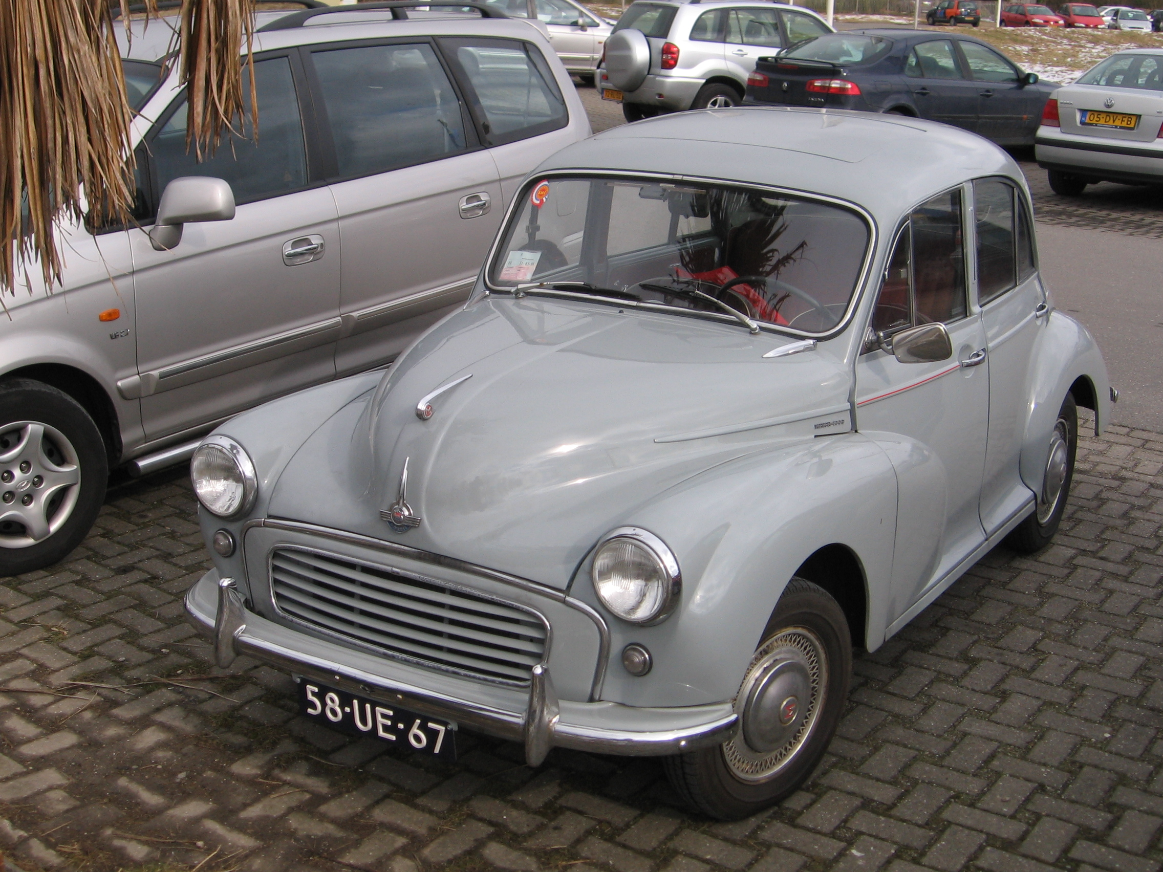 Morris Minor 1000, photographed in Delft